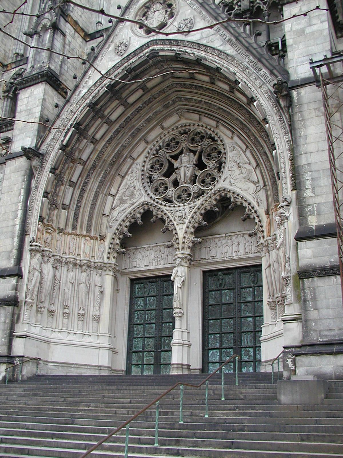 Saint John the Divine, cathedral, west entrance. Manhattan, New York City. I (Petri Krohn) took this picture in March 2005. Category:Photographs by User:Petri Krohn